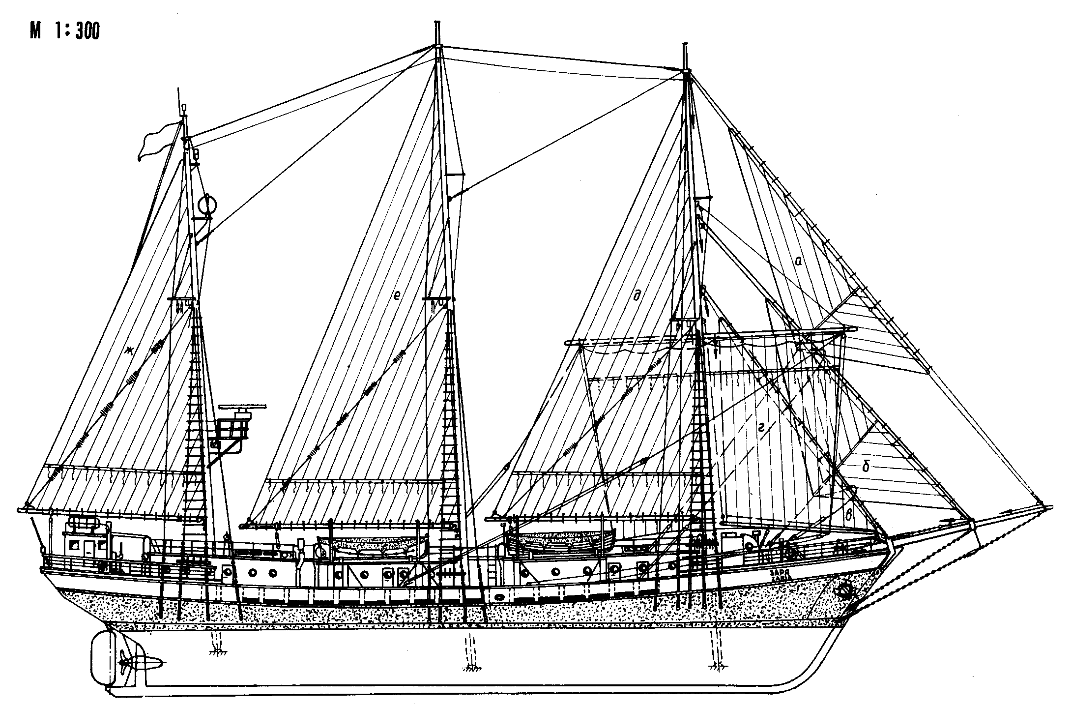 Blueprint of schooner Zariya. Built in 1952.